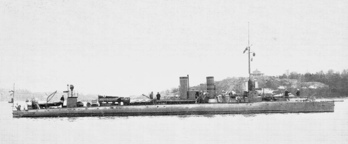 Imperial Russian torpedo boat No. 218.